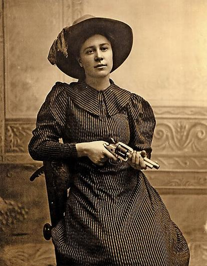 Alleged photo of Rose Dunn (1878-1955). Actually, the woman on this photo was a prisoner who posed to illustrate a story of the Rose of the Cimarron.